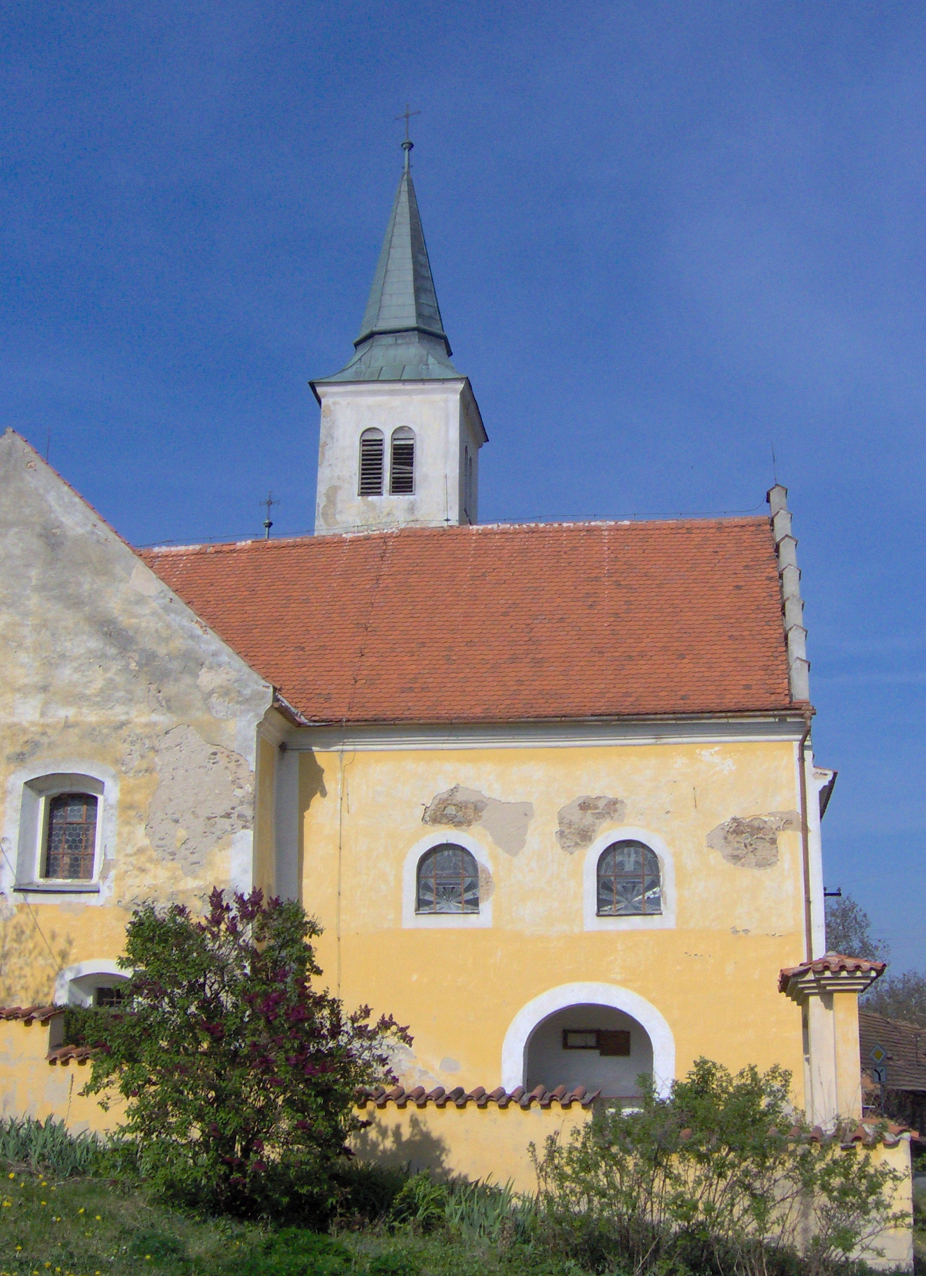 St Lawrence Church in Kraselov, Strakonice District, Czech republic